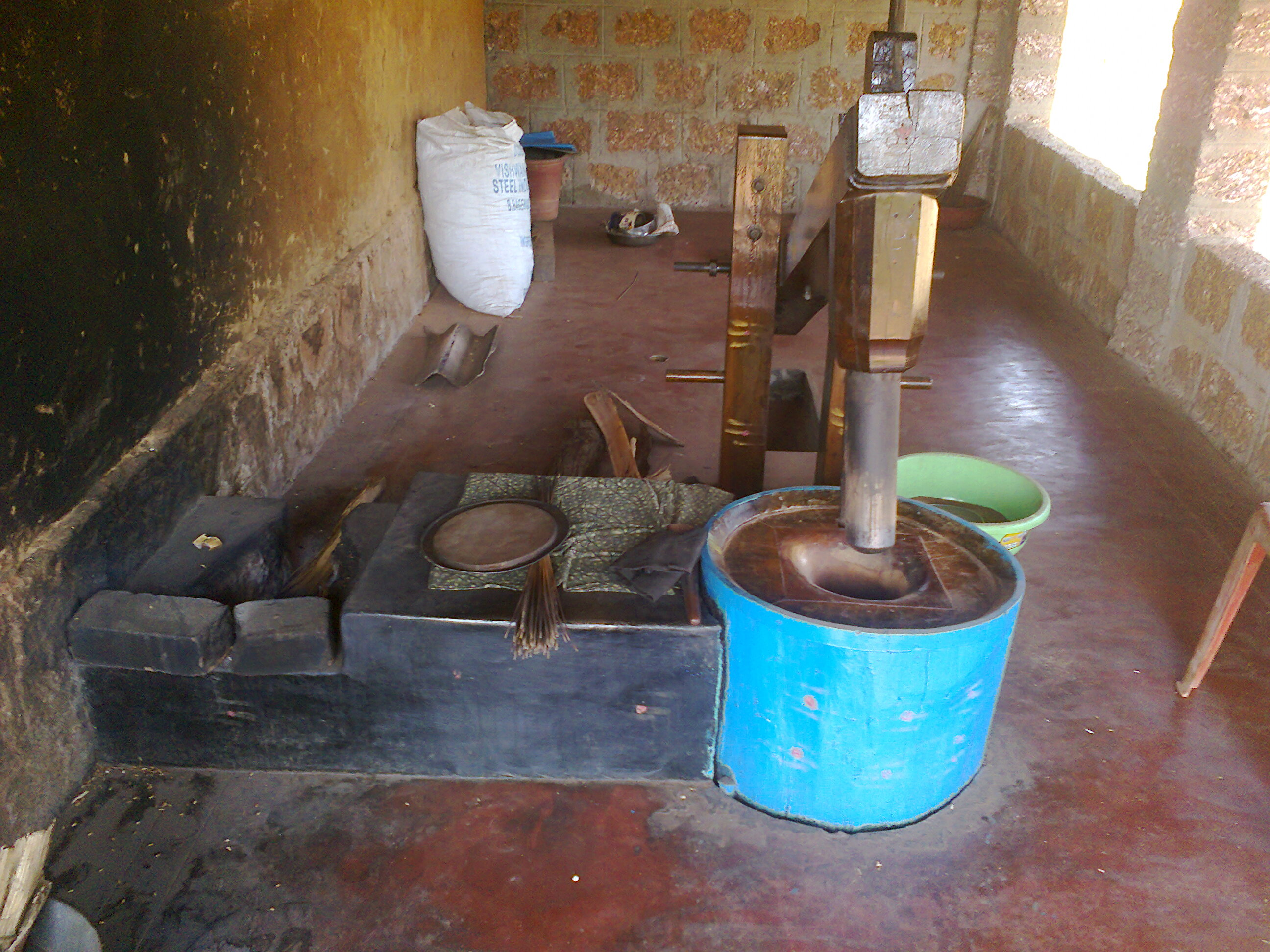 pilikula nisargadama avalakki kuttuva yantra